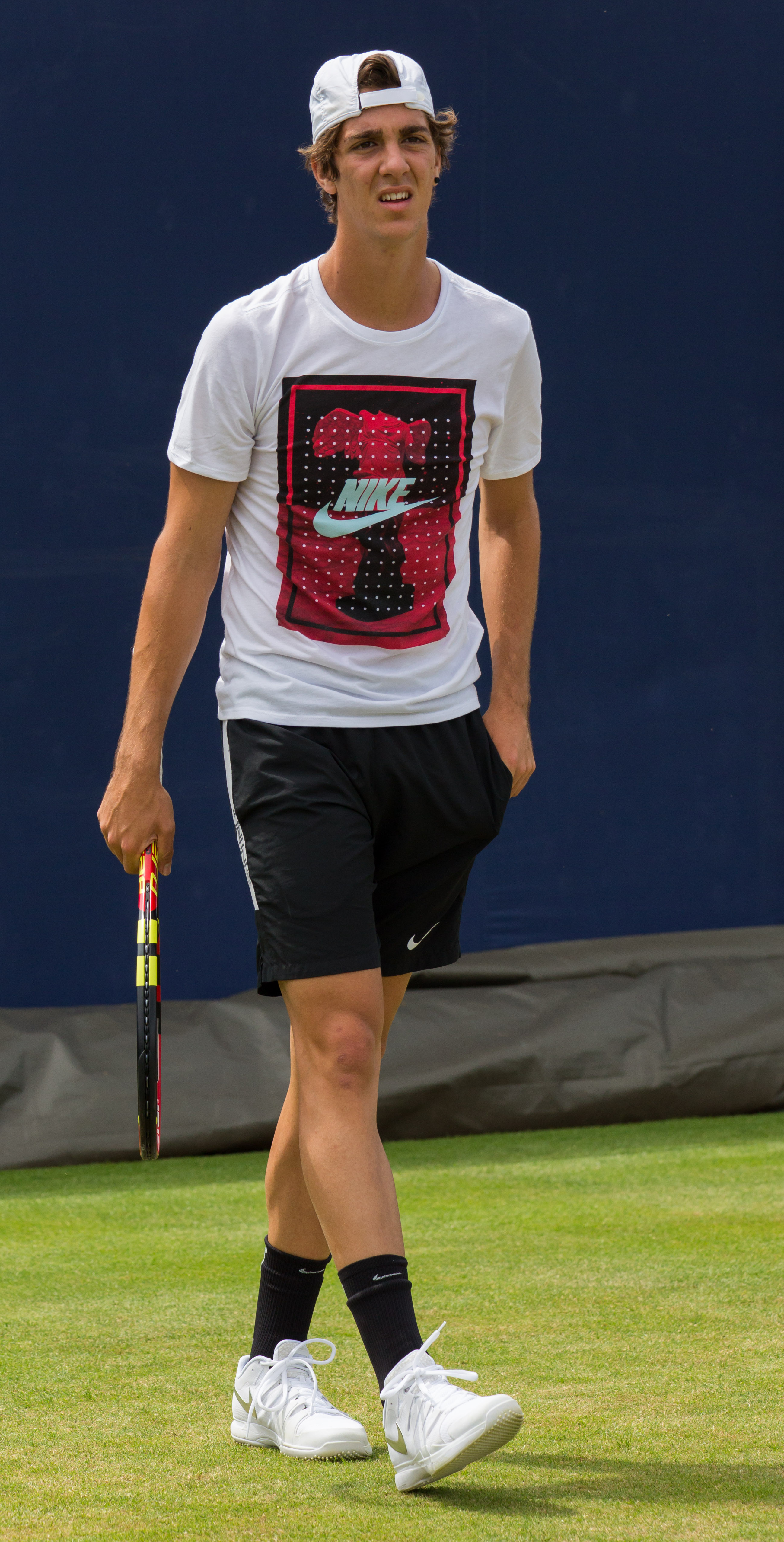 Thanasi Kokkinakis during practice at the Queens Club Aegon Championships in London, England.